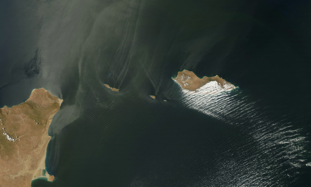 Terra MODIS satellite image of Socotra Archipelago, Yemen